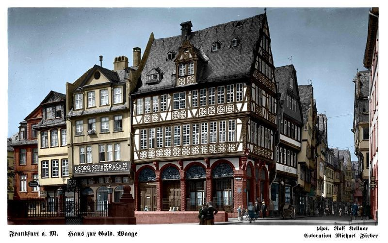 The "Haus zur Goldenen Waage" (Golden Weigh House) in the Altstadt (old town) district of Frankfurt am Main, Hesse, Germany. Built in 1619, destroyed 1944 by air raids, reconstructed 2014-2016 (Dom-Römer Project). Colourized photo of 1900 (photochrome).